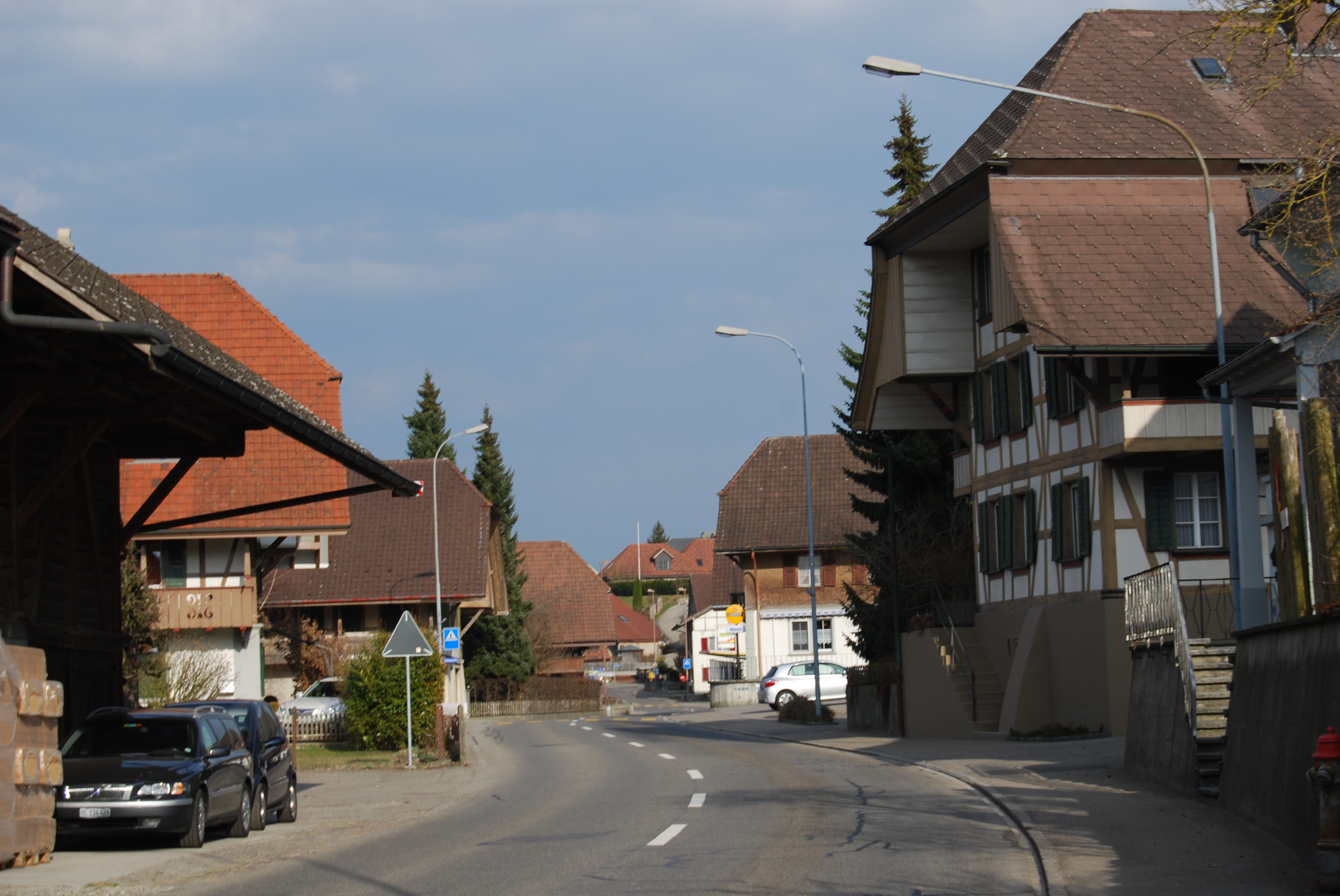 Bleienbach, canton of Bern, SwitzerlandEsperanto: Bleienbach, Kantono Berno, Svislando